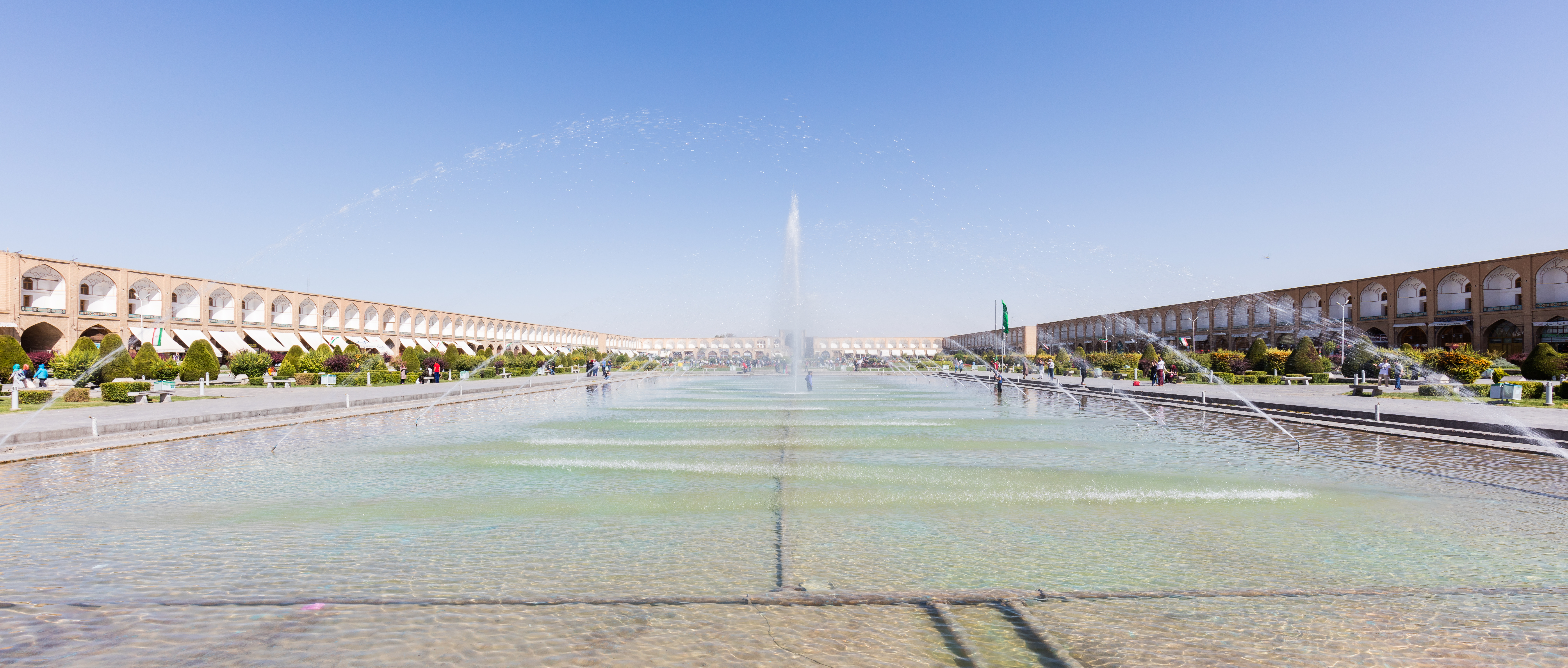 Naqsh-e Jahan Square, Isfahan, Iran